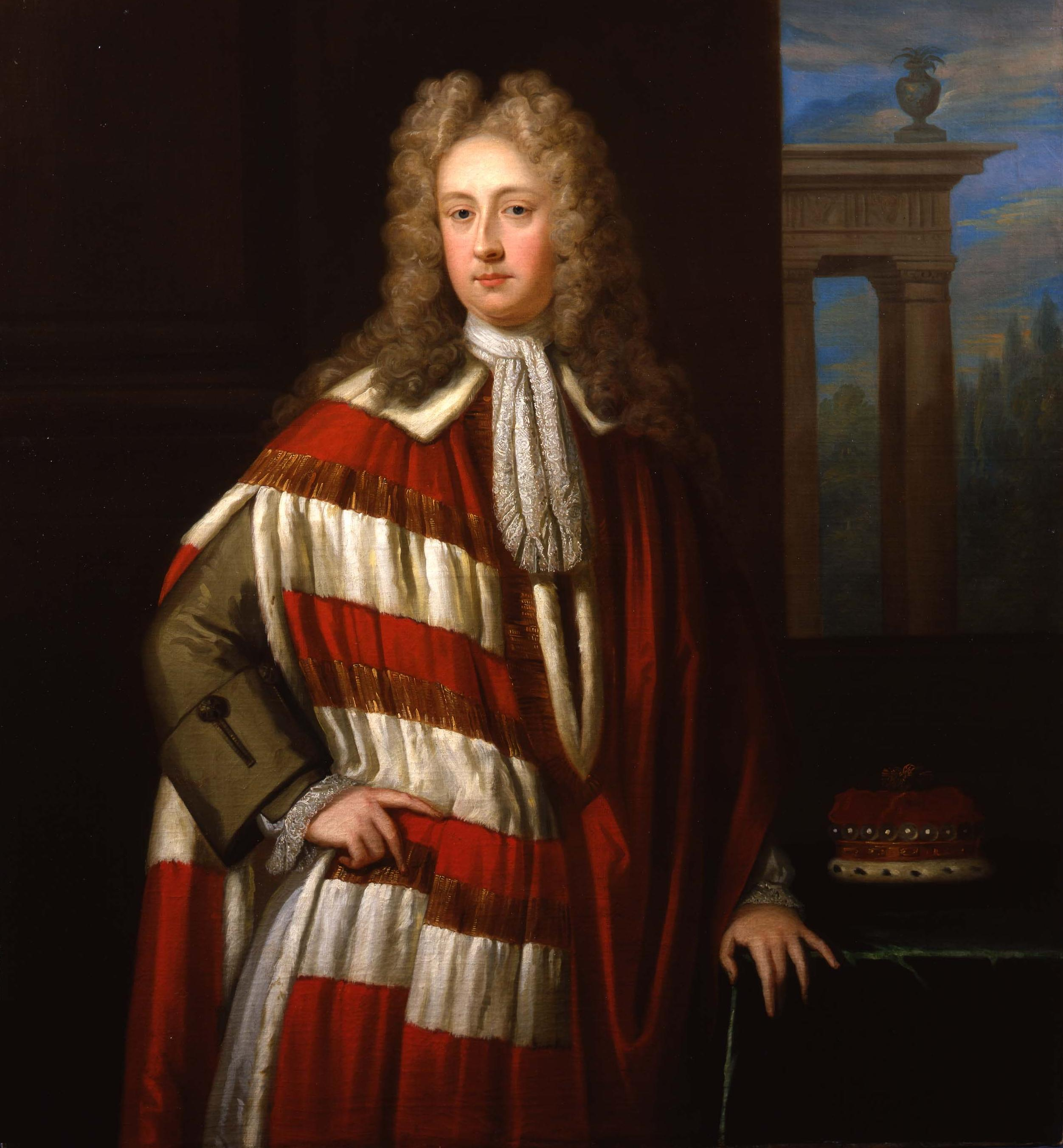 This portrait of the famous Tory and later Jacobite politician shows him in Parliamentary robes. Bolingbroke could not accommodate himself to the Hanoverian succession and went into exile abroad at the Jacobite court.